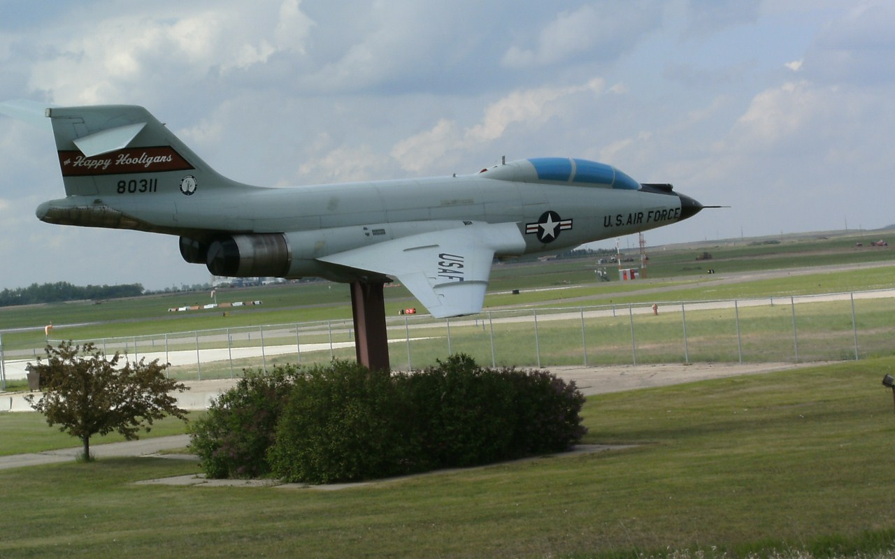 A McDonnell F-101F-111-MC Voodoo (USAF s/n 58-311) located at Devils Lake, North Dakota (USA).